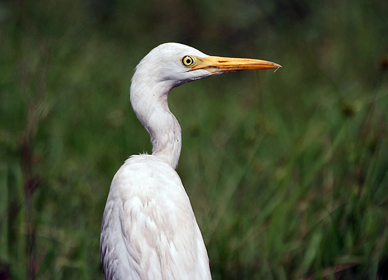 Unidentified egret (not Cattle Egret: bill too long; possibly Egretta intermedia) in Kolkata, West Bengal, India.